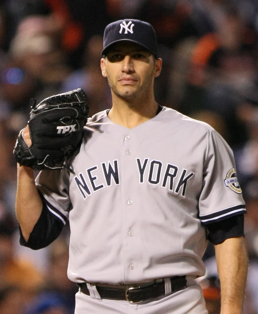 New York Yankees v/s Baltimore Orioles 08/31/09